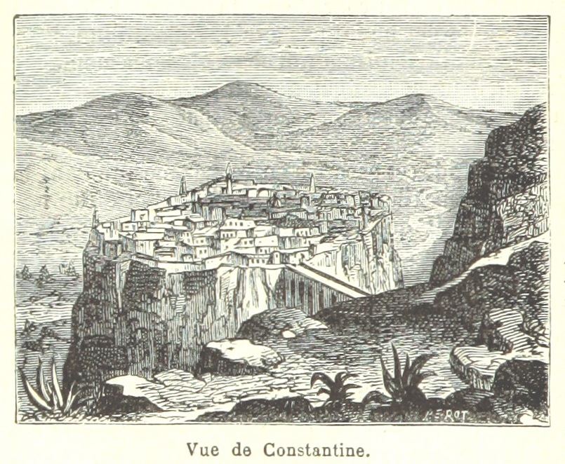 Woodcut view of the city of Constantine in Algeria